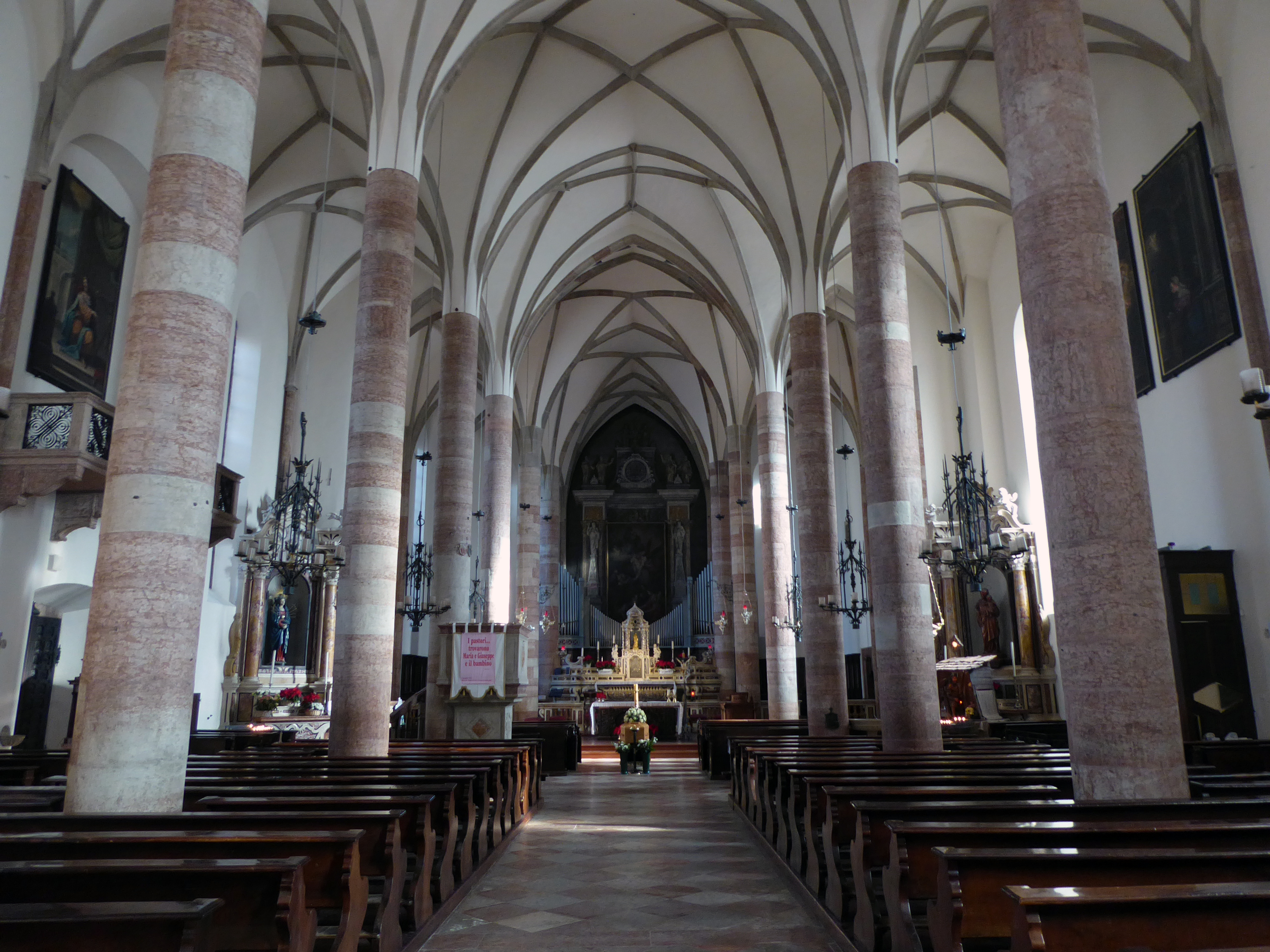 Pergine Valsugana (Trentino, Italy) - Church of the Nativity of Mary, interior